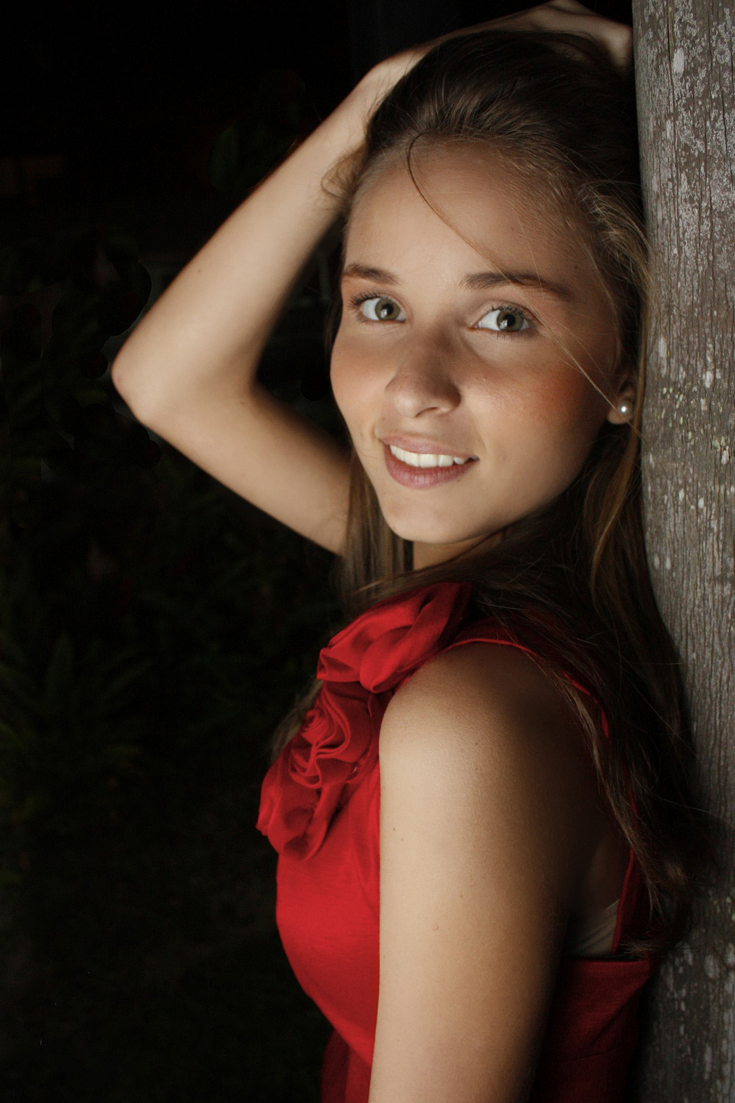 Young Woman modeling in a red dress. Photographed with a Canon EOS Digital Rebel XSi. Settings: 1/25 ƒ/4.5 ISO 800 18mm